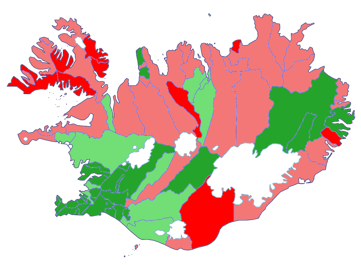 This map shows the changes in population of the municipalities of Iceland in the ten year period 1997-2007. The dark red municipalities have lost over 20% of their population in this period while the lighter red have experienced less severe depopulation. The yellow indicates the one municipality which had the exactly same number of inhabitants in 1997 and 2007. The green municipalities experienced a growth in population, the growth was lower than the total growth of the nation in the period (13.92%) in the light green ones and higher than the national rate in the dark green ones.